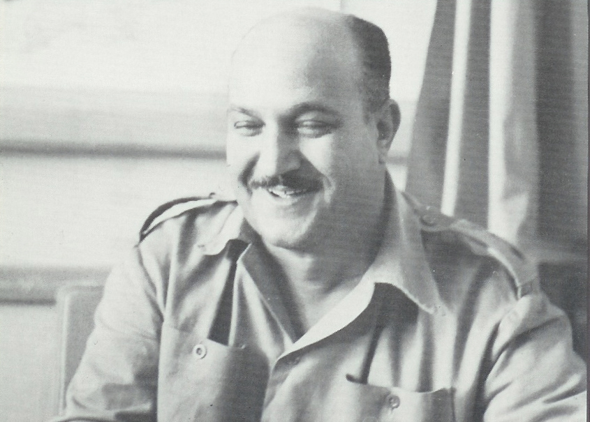 Colonel Hassan Ali Kamal, Egyptian chief of operations, at his desk in San'a.